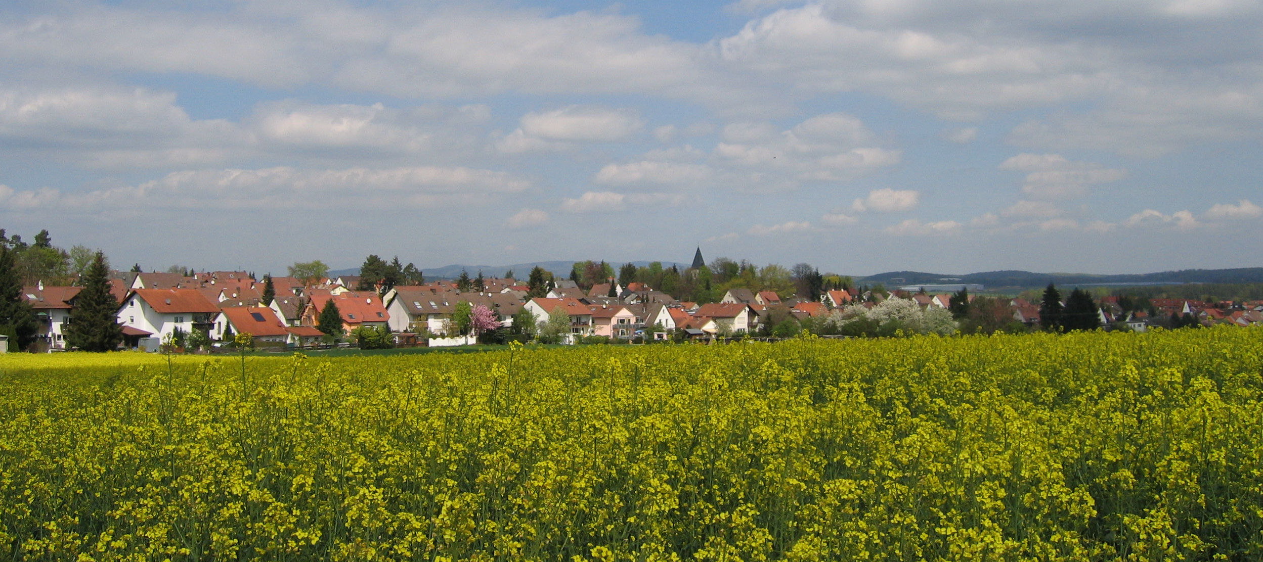 view of Mehlingen, Germany